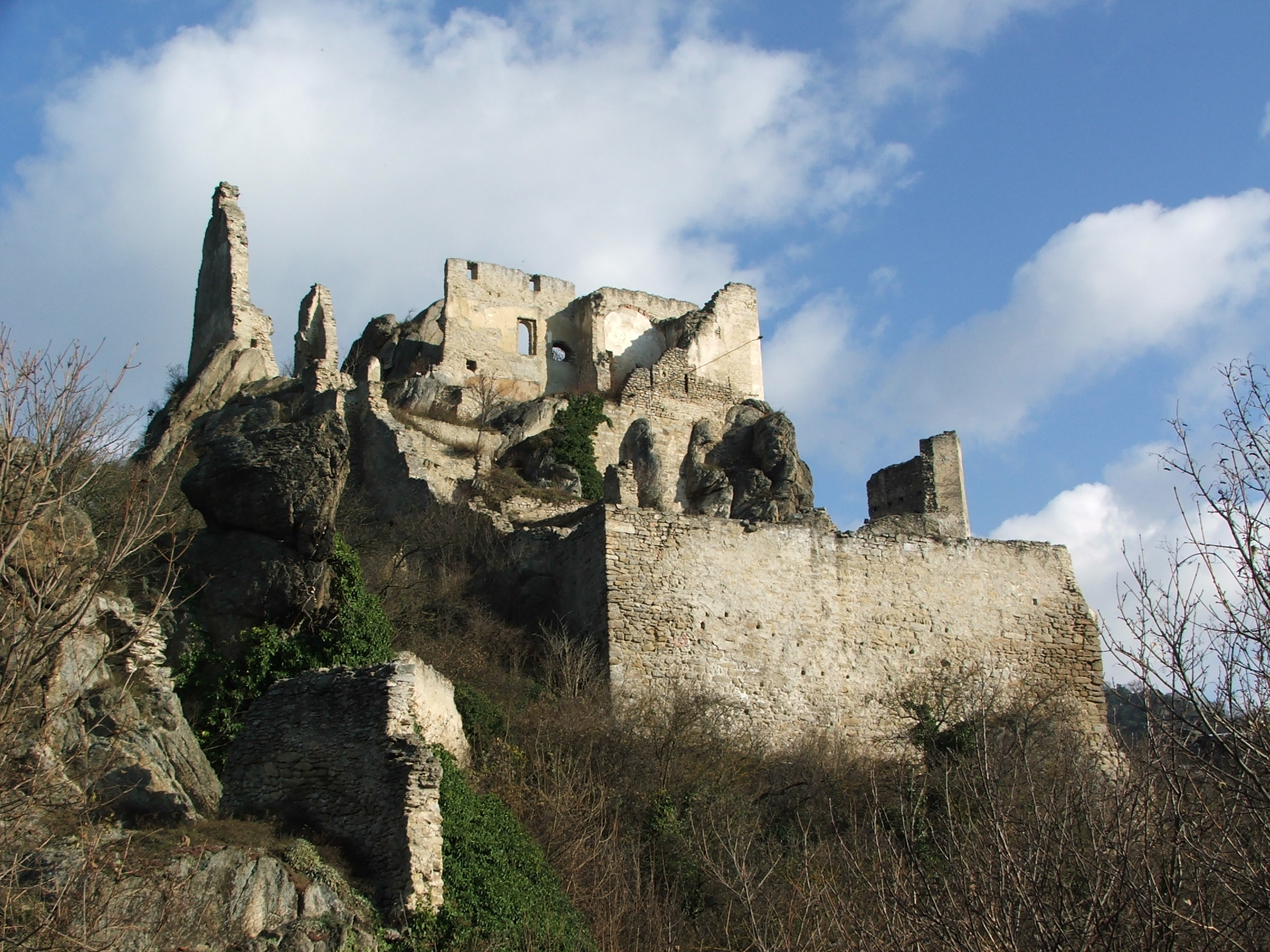 Dürnstein Castle in Austria.